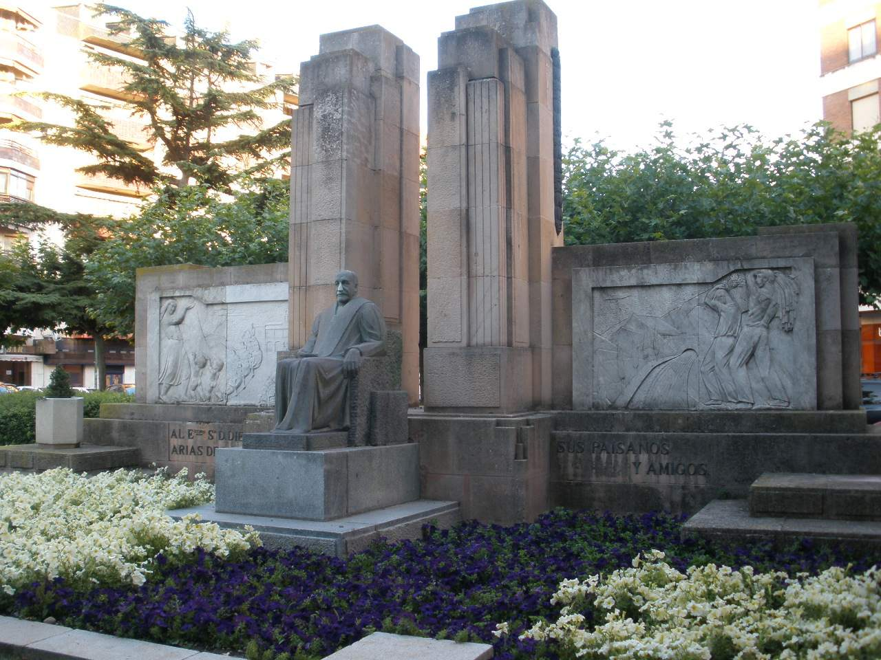 Aranda de Duero - Monumento a Diego Arias de Miranda